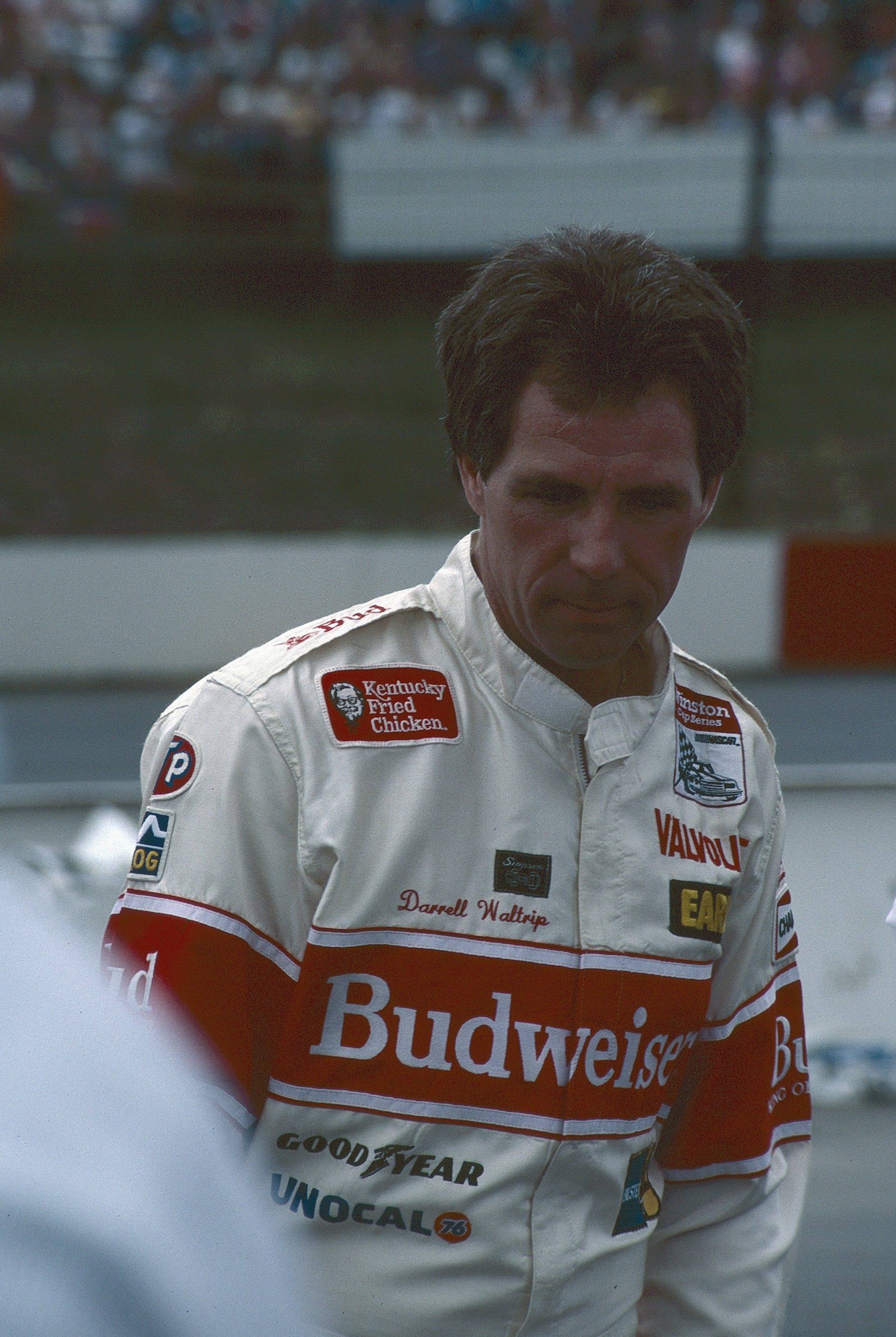 NASCAR champion Darrell Waltrip in the mid 1980s. Photo by Ted Van Pelt.